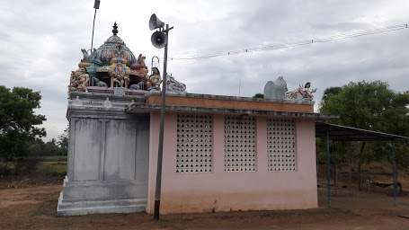 Pillaiyar Kovil is placed North East of the pandikkudi village.